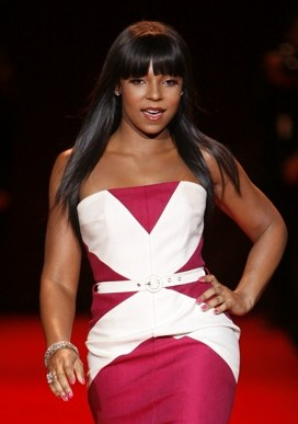 Ashanti modeling at The Heart Truth Fashion Show 2008